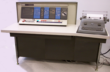 Operating IBM 1620 computer (Model 1 Level H) at the Computer History Museum. I took this photo and edited it. This computer was restored by a team of volunteers over a two year period after having sat idle for over 15 years. This machine was originally built in about 1964 (based on part datecodes). The only severe problem encountered was that the core memory is completely inoperative due to corrosion (caused by incorrect solder flux when the machine was built) and had to be replaced with SRAM chips. As an illustration of the change in price of computers; the original core memory (60,000 decimal digits) cost about $90,000 in 1964 (this would be over $500,000 in 2000 dollars due to inflation), we replaced this with 1MByte of SRAM totaling $40 and used only about 4.25% of this memory (the rest is unused due to the decimal based addressing of the 1620 and only 6 bits of each byte are used due to the decimal data format of the 1620). In other words, $90,000 of core was effectively replaced by less than $2 of SRAM storage (with the remaining $38 dumped as waste)... memory is almost free now. Less than a dozen transistors were replaced (of the about 5,000 in the computer) to repair the electronics; except for one, all were original IBM transistors from the period. I was a member of this team. Photo by RTC.